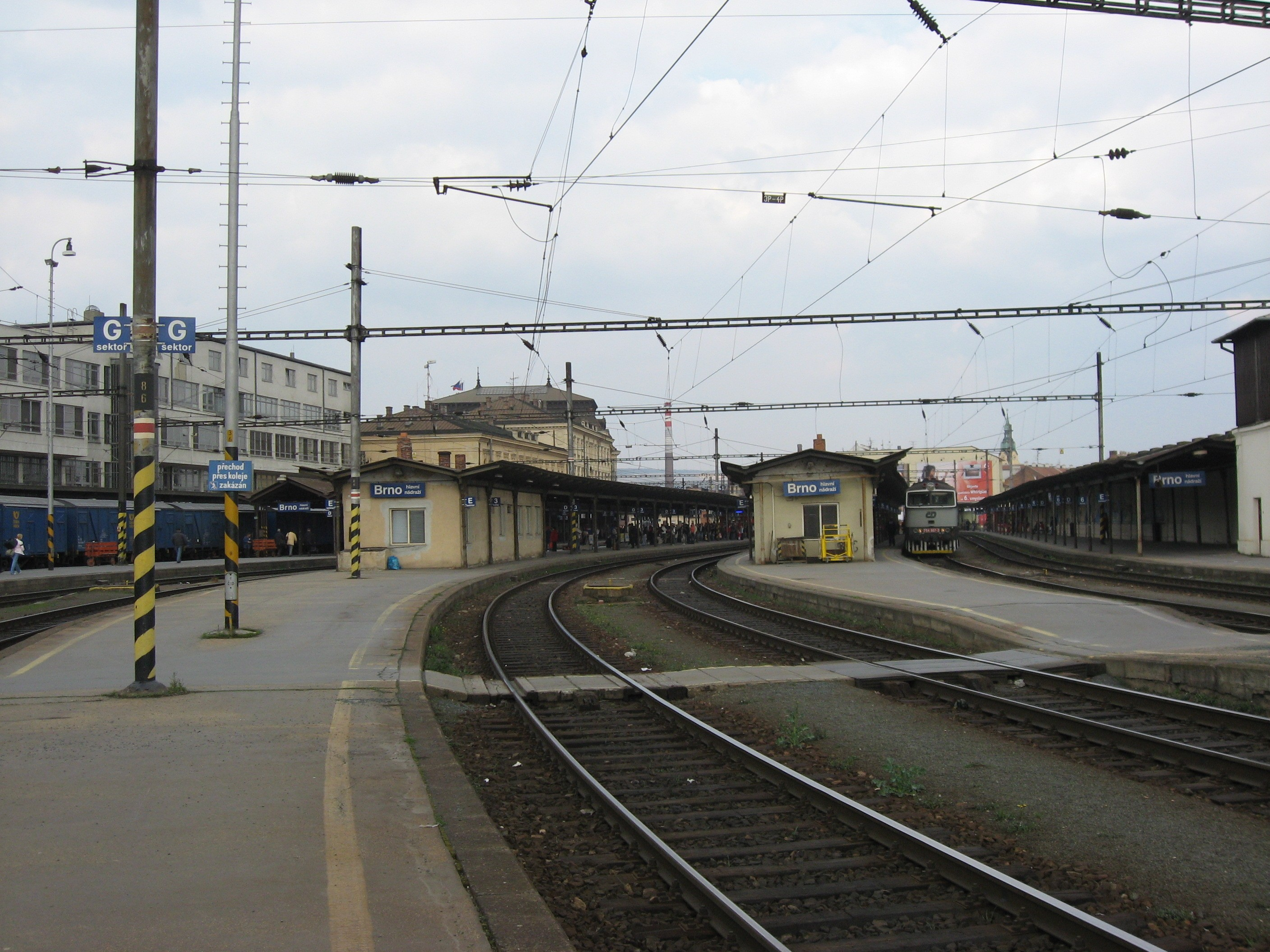 Brno railway station